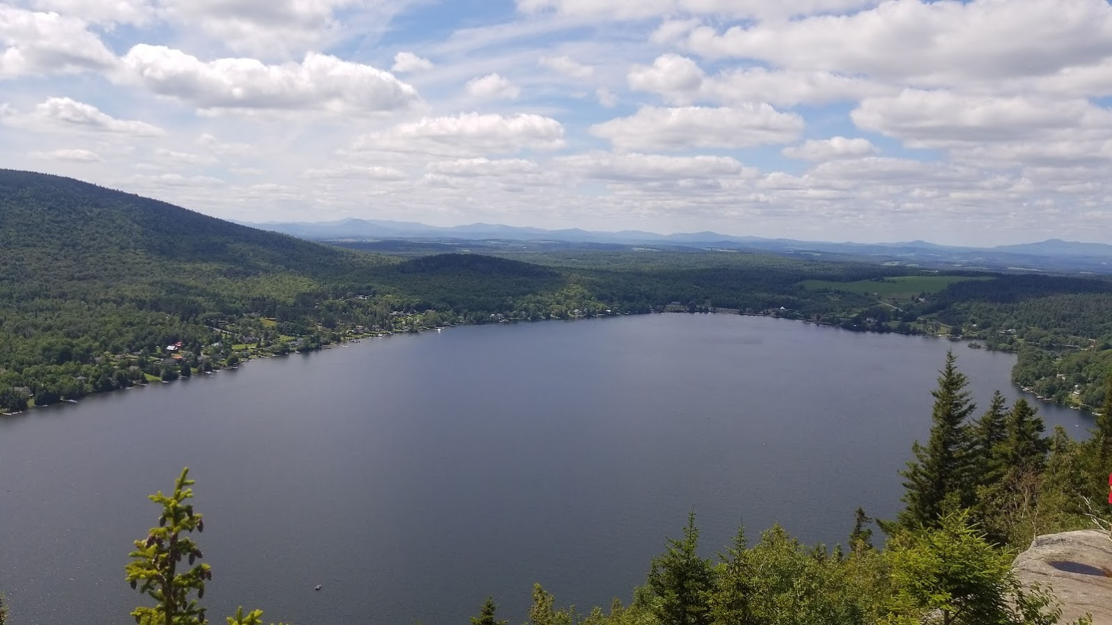 View of Lac Lyster in Québec Eastern Townships (Estrie)